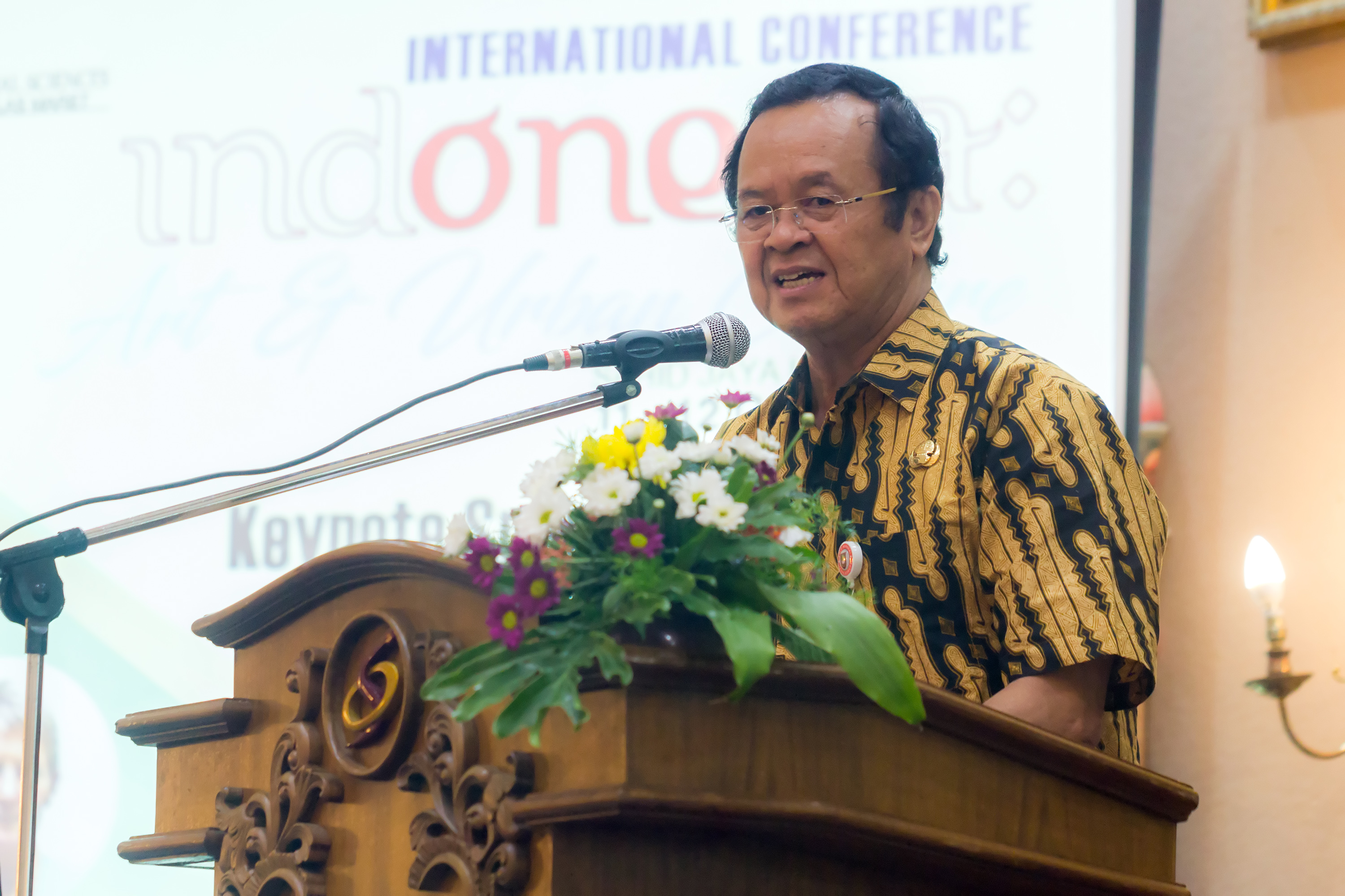 Achmad Purnomo, deputy mayor of Surakarta, speaking to the Art and Urban Culture Conference at Sahid Jaya Hotel, Surakarta, on 11 October 2016